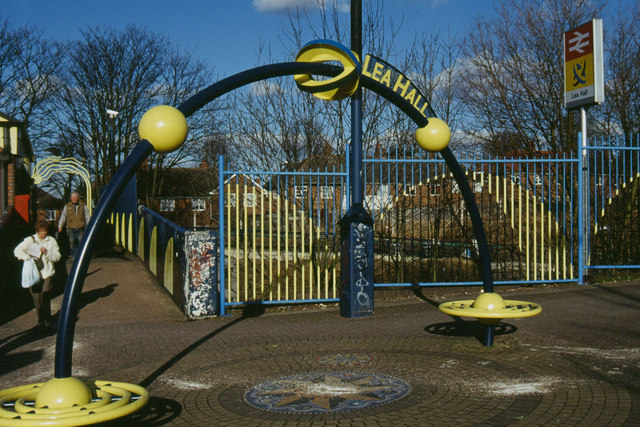 Lea Hall station